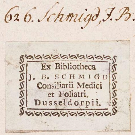 Ex Libris des Düsseldorfer Arztes Johann Baptist Schmigd (1752-1828)